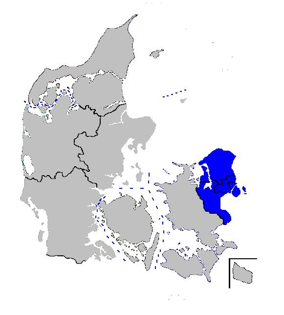 Copenhagen Metropolitan Area (previously known as HT-området) consists of the four provinces Copenhagen City, Outer Copenhagen, Northern Zealand and Eastern Zealand